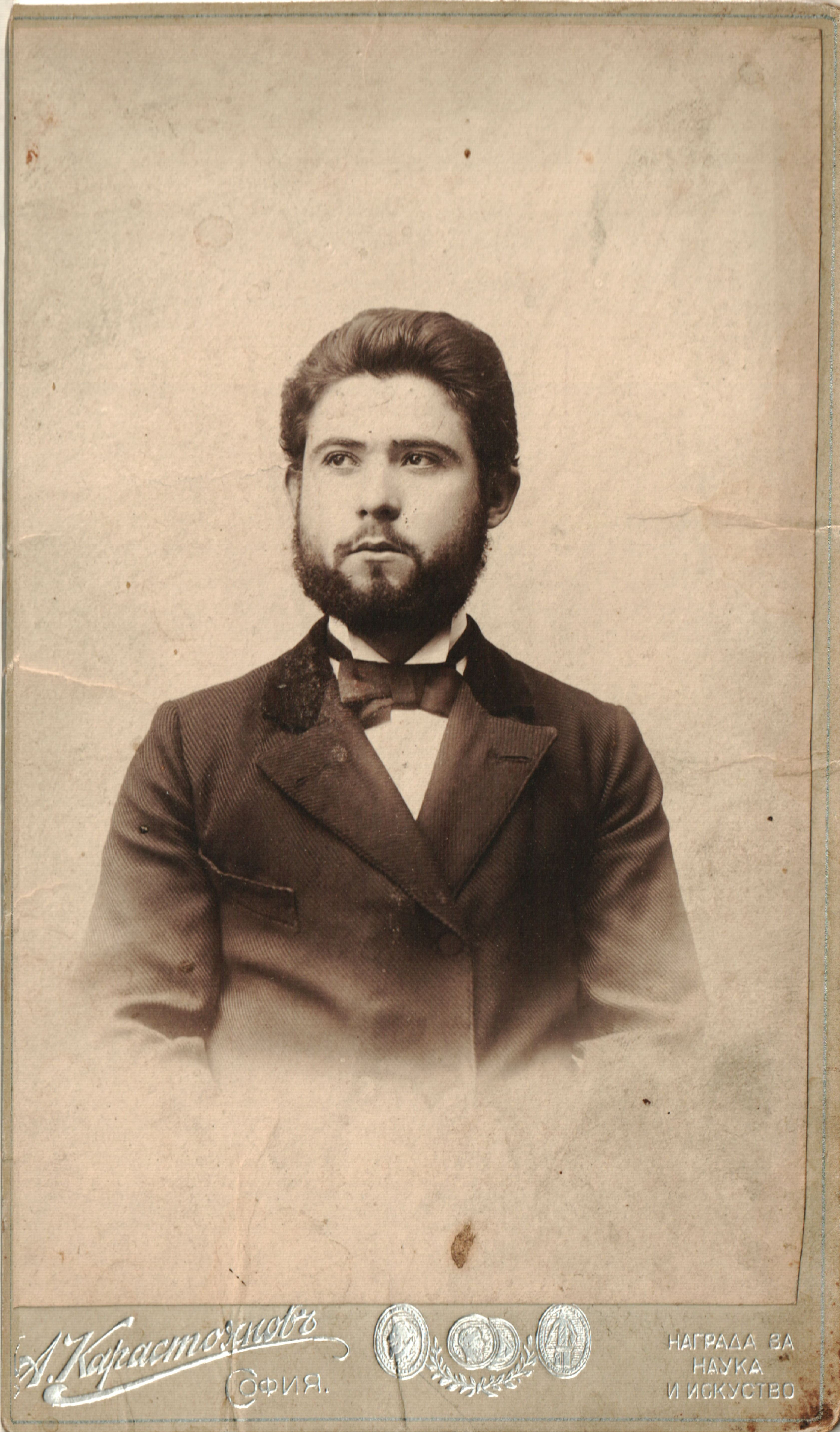 Dimitar Isaev Matliev